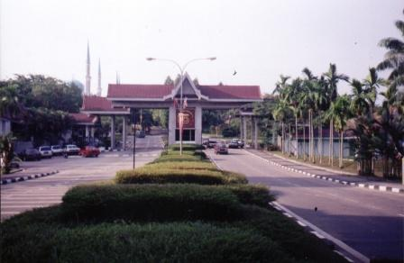 Technological University of Malaysia Main Entrance